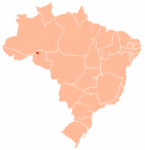 Location of Porto Velho in Brazil